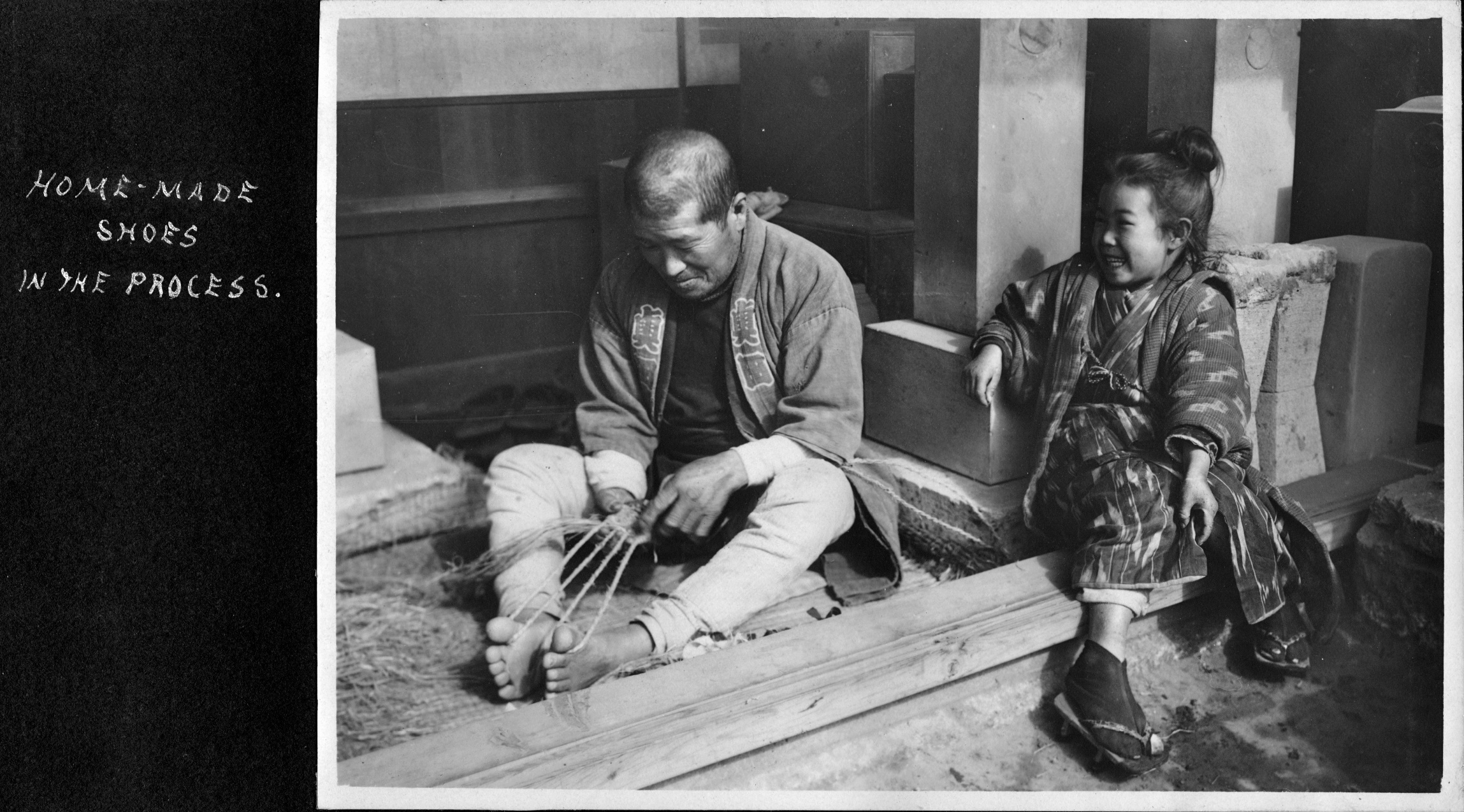 "Home-made shoes in the process." I wonder whether this man was a shoemaker by trade, or whether every family had a member who could make shoes at home. This photo is from an album Elstner Hilton compiled in Japan between 1914 and 1918. Elstner was my spouse's uncle. While Uncle Elstner was pretty good about annotating the photos that required an explanation of some sort, he did not date the pictures. So all we know is they were taken between January, 1914 and December, 1918.